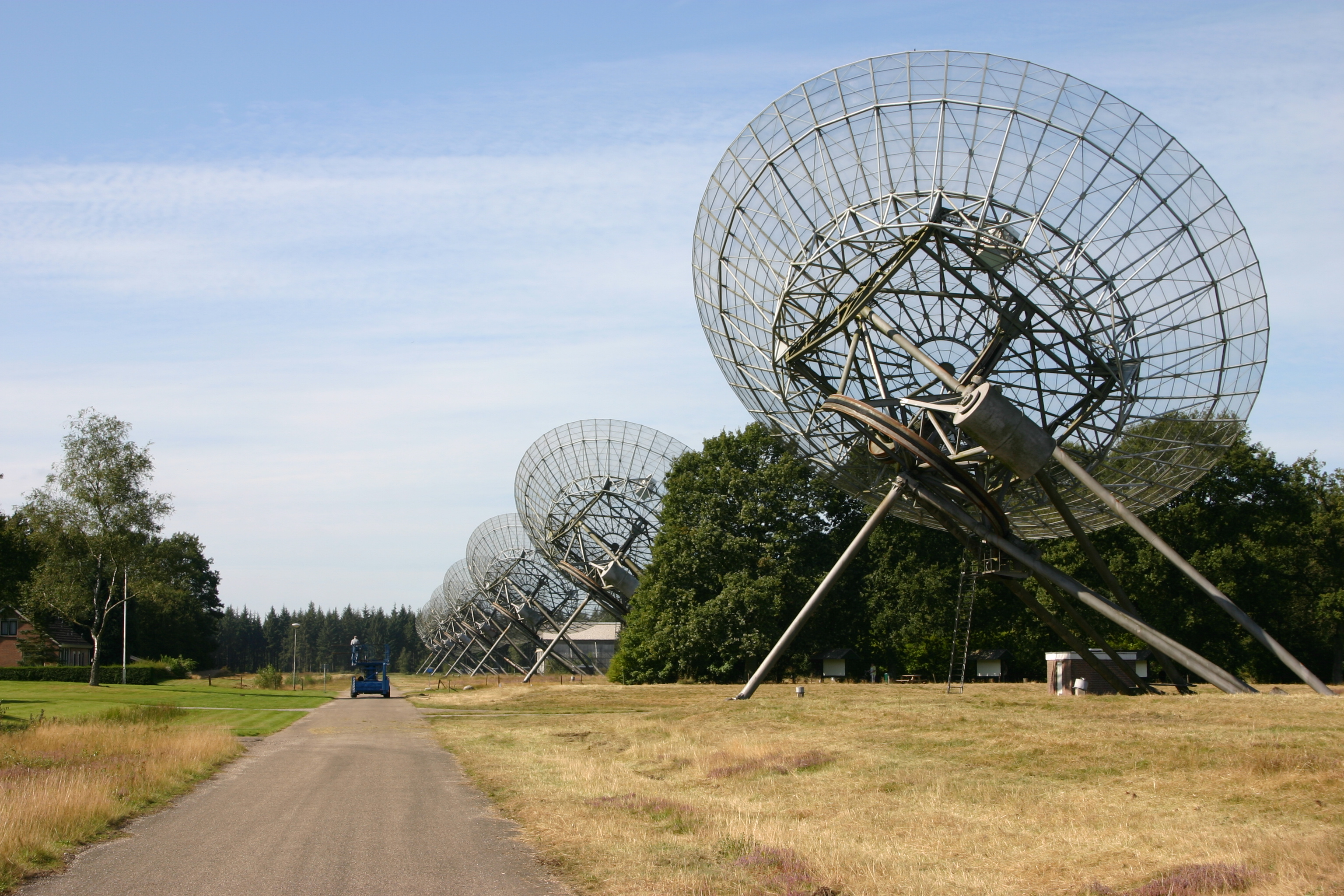 This image shows the Westerbork Radio Telescope (WSRT) in operation. I made this image myself in 2005. The blue vehicle is the truck/crane that is used to service the frontends where the receivers and associated electronics reside.